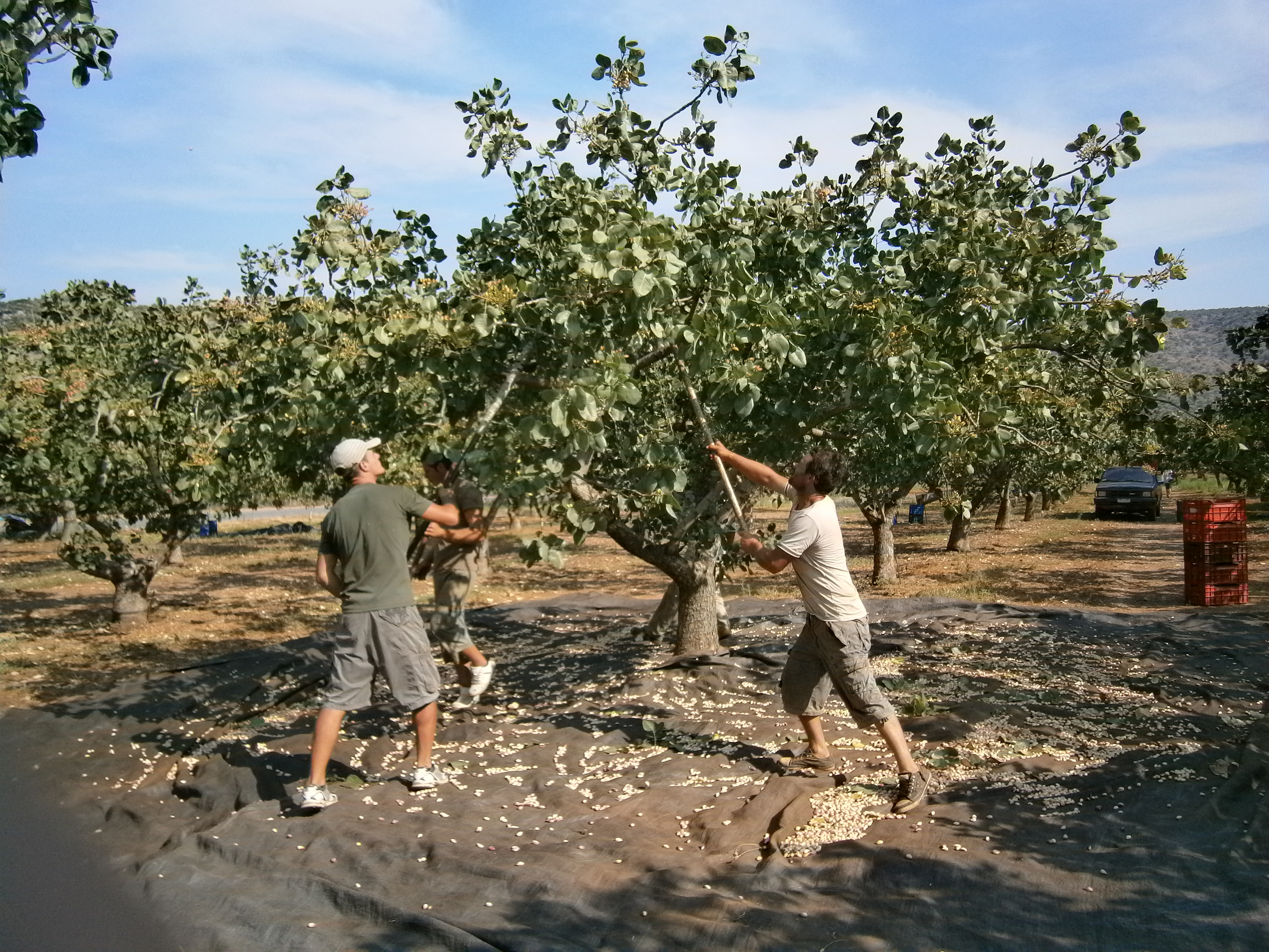 pistach harvest